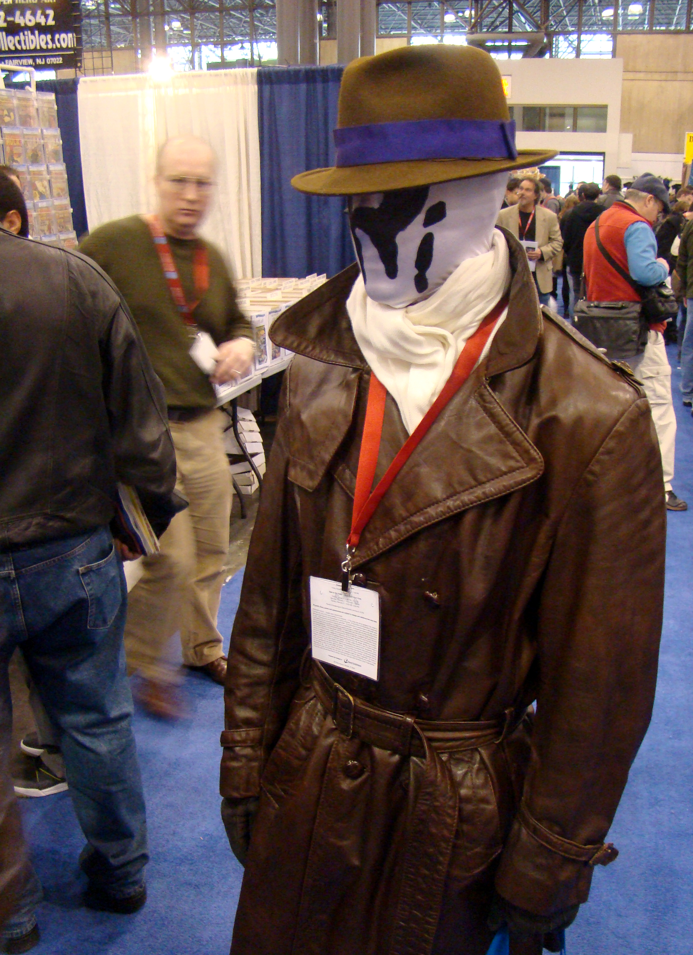 rorschach, from watchmen. New York Comic-Con, Saturday, February7th, 2009. If you see yourself in this or any of my other pictures, let me know in the comments, or by emailing me at loser: [at] istolethe [dot] tv.